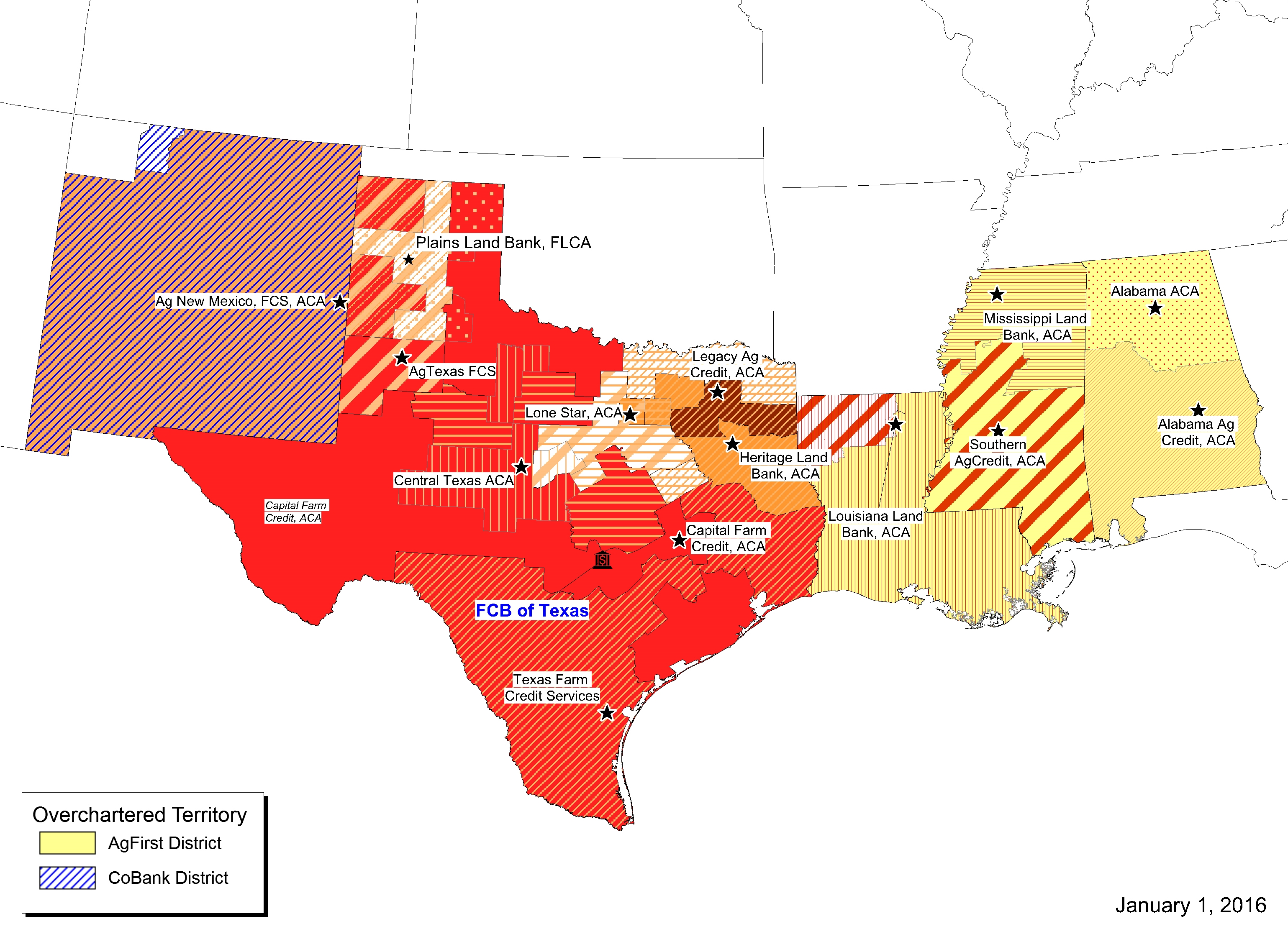 Charter territory map of Farm Credit Bank of Texas.